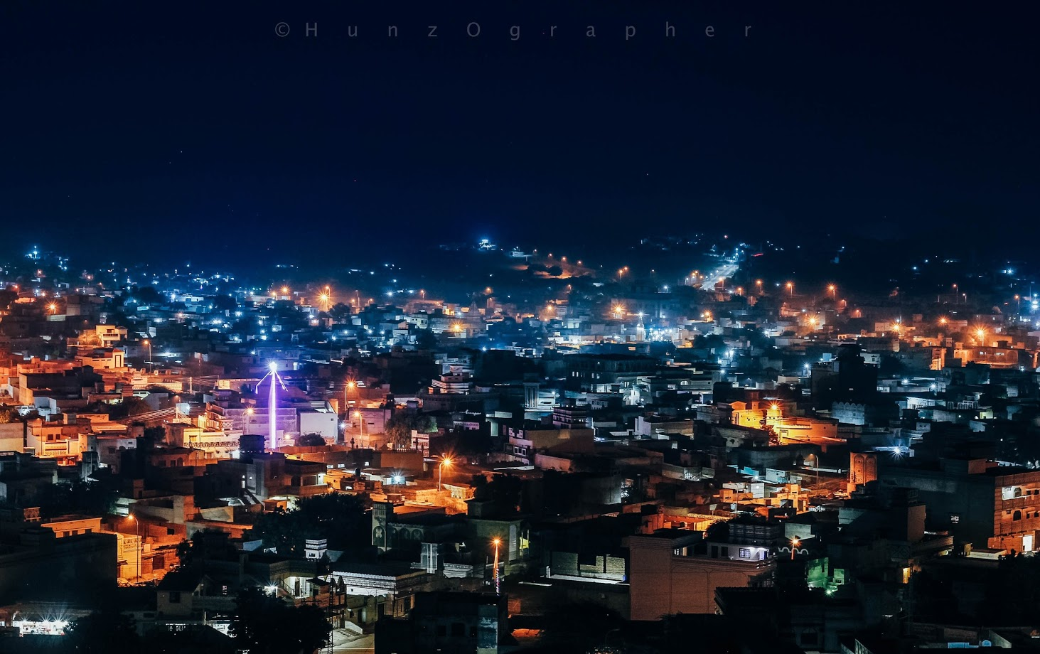 NIGHT VIEW OF METHI THARPARKAR SINDH